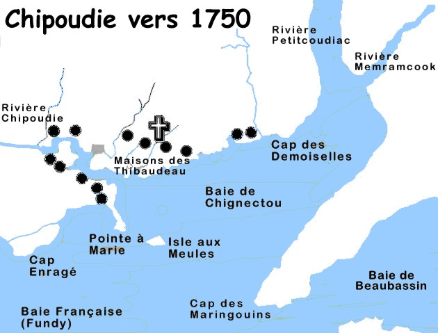 map of Chipoudie village in 1750